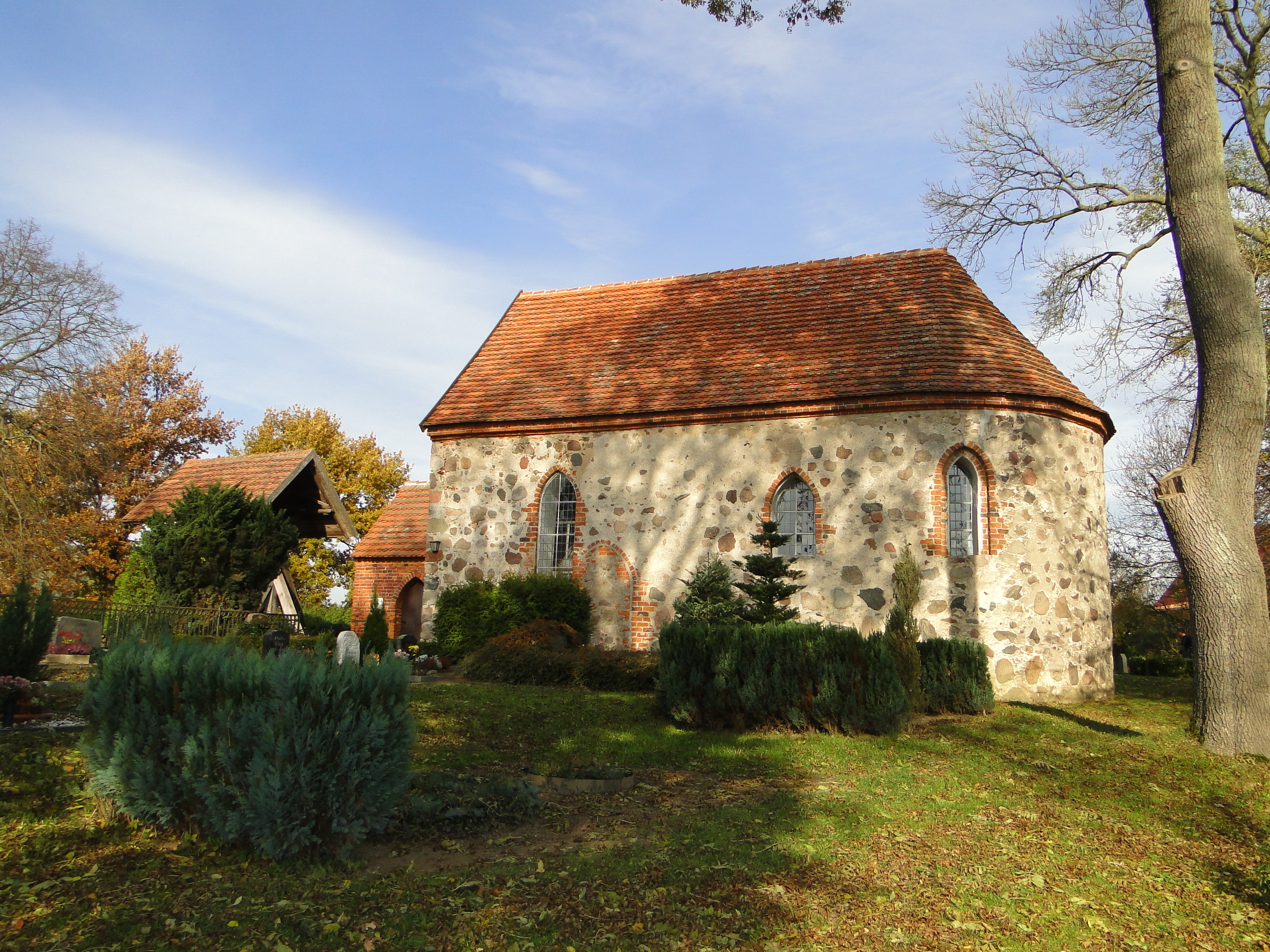 Church in Blankensee, district Mecklenburg-Strelitz, Mecklenburg-Vorpommern, Germany